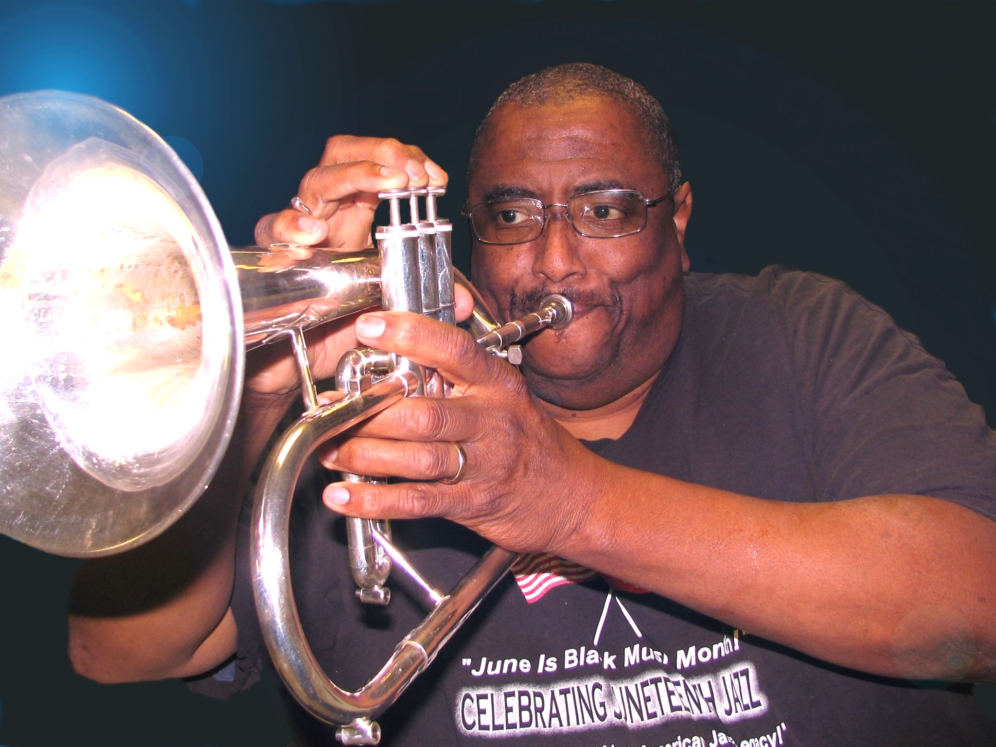 Jazz musician Dr. Ron Myers plays the flugelhorn at a performance in Roland, Oklahoma